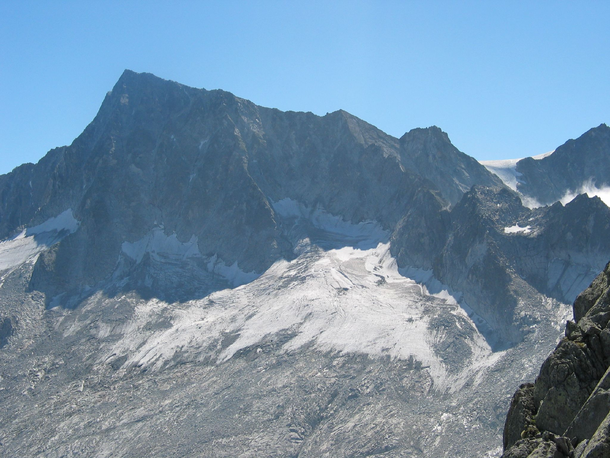 Mount Adamello (3539 m), the highest summit of Adamello group, seen from the west.